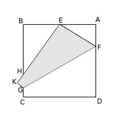 Image is the Haga's Theoreme (created with GIMP)